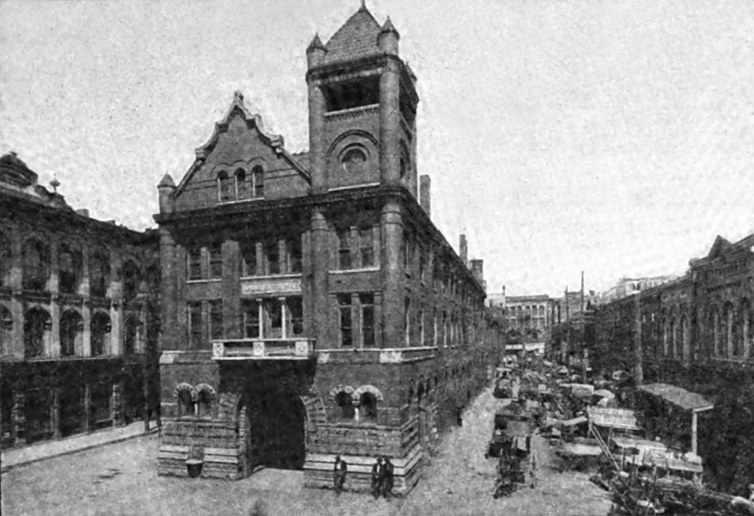 The Market House on Market Square in Knoxville, Tennessee, USA. Built in 1897, it provided a market place for regional farmers until it was demolished in 1960.